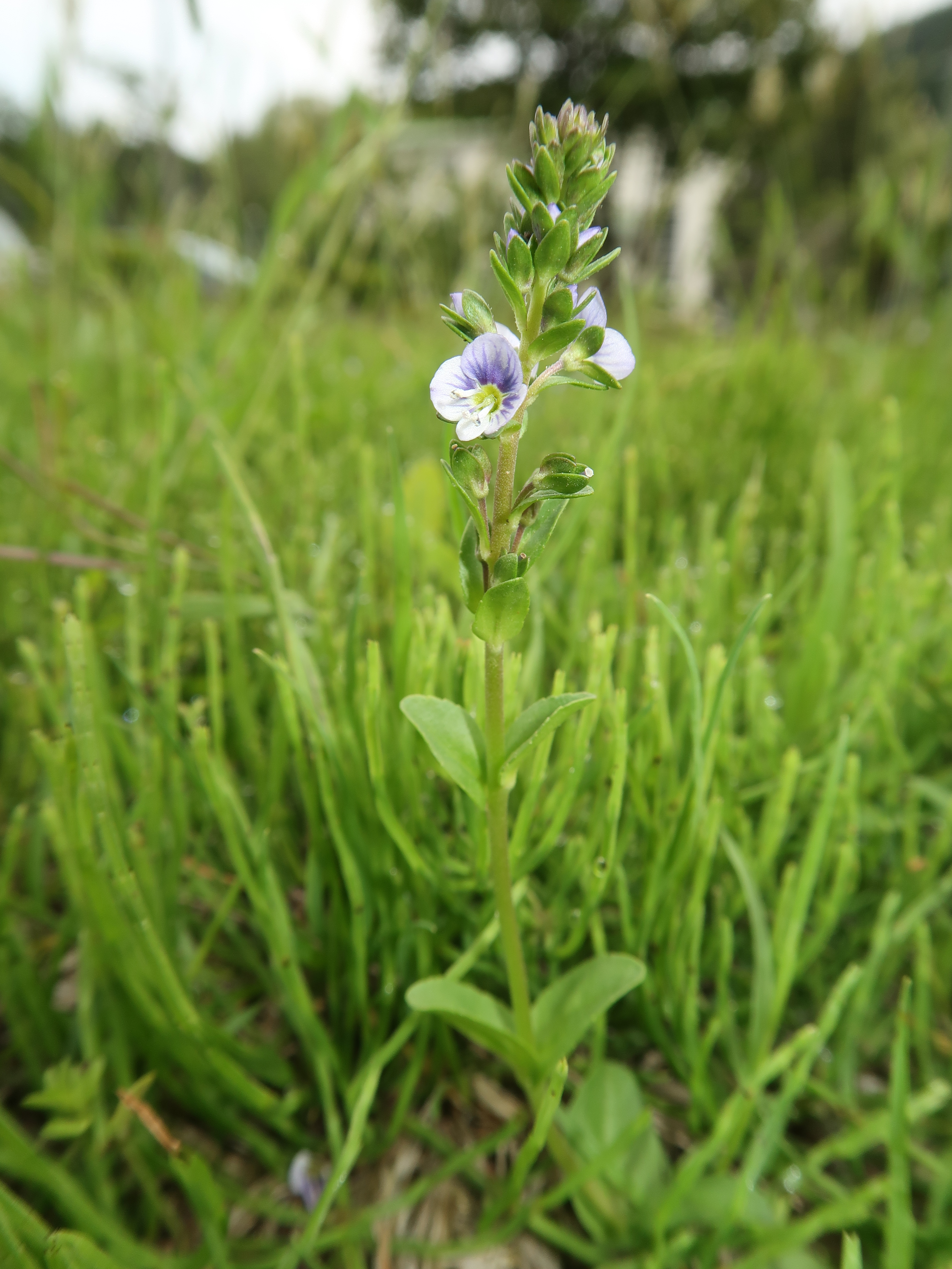 Veronica serpyllifolia , Akita pref., Japan